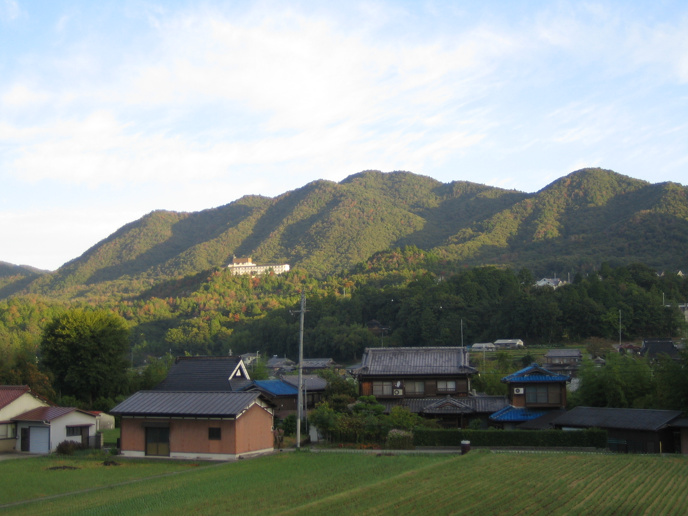 Mount Chigogabaka seen from the SSE, in Tanjo Mountains, Rokko Mountains, Hyogo, Honshu, Japan.